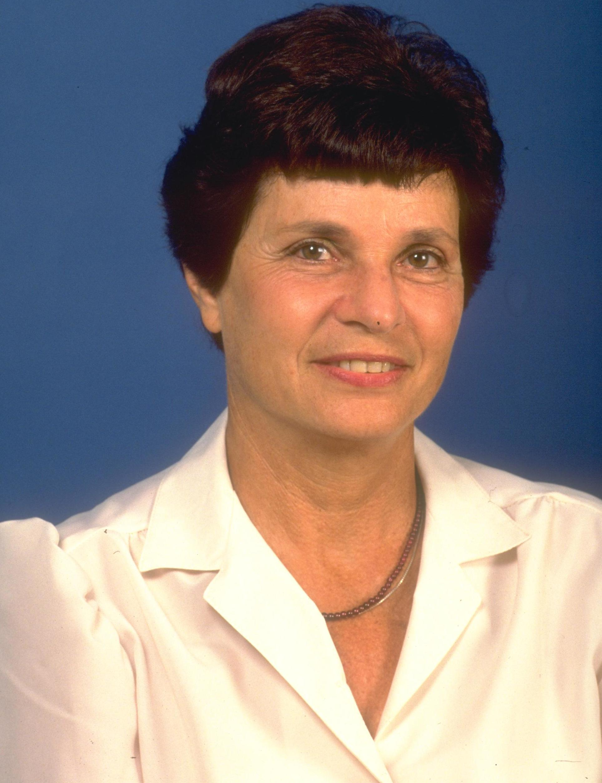 A portrait of mk Amira Sartani.